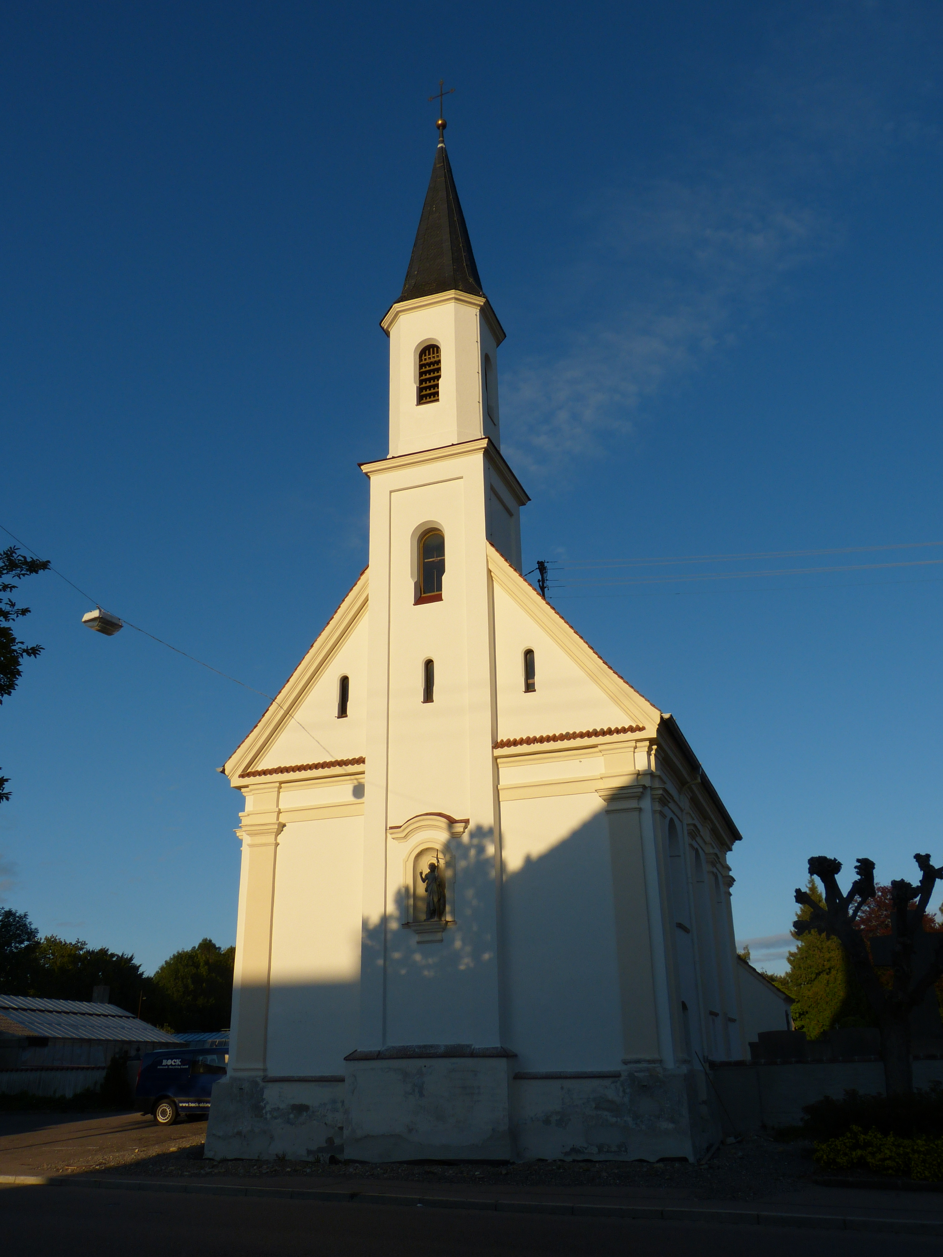 This is a photograph of an architectural monument.